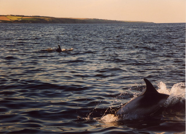 White-beaked olphins south east of Old Portlethen Photograph taken in boat whilst off Portlethen. Dolphins are quite common in this area. Minke whales can also been seen in August.